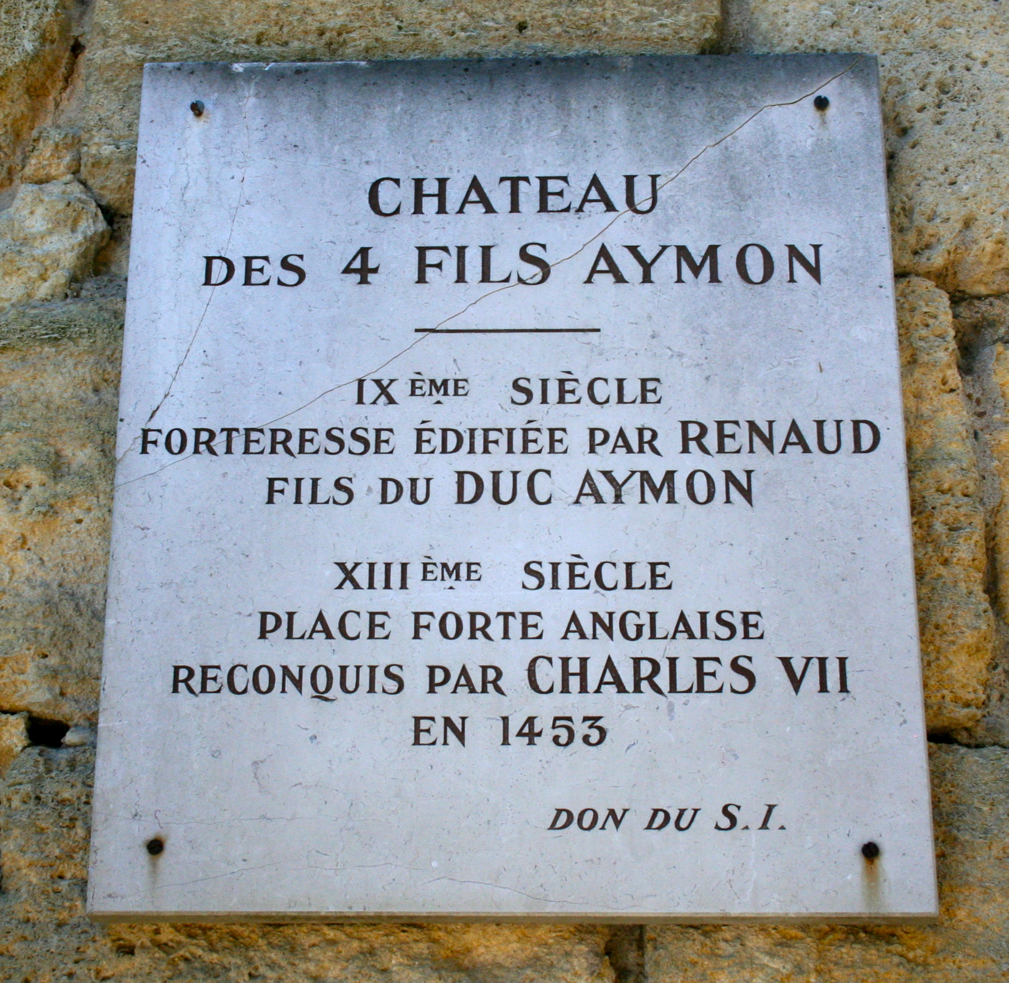 Plaque found at the "4 FILS AYMON" castle.